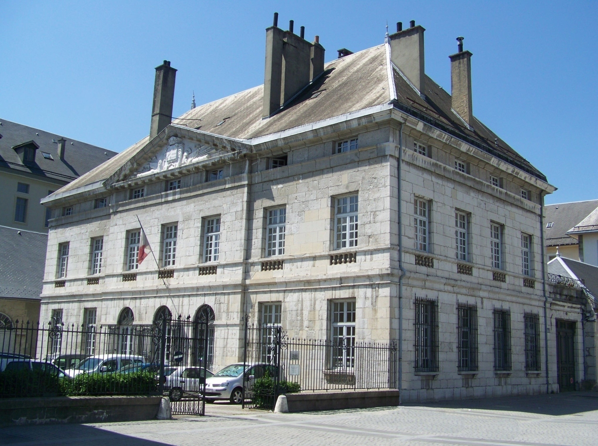 Building of custom house (Hôtel des Douanes, also called Hôtel de Clermont-Mont-St-Jean) in Chambéry, Savoie, France.